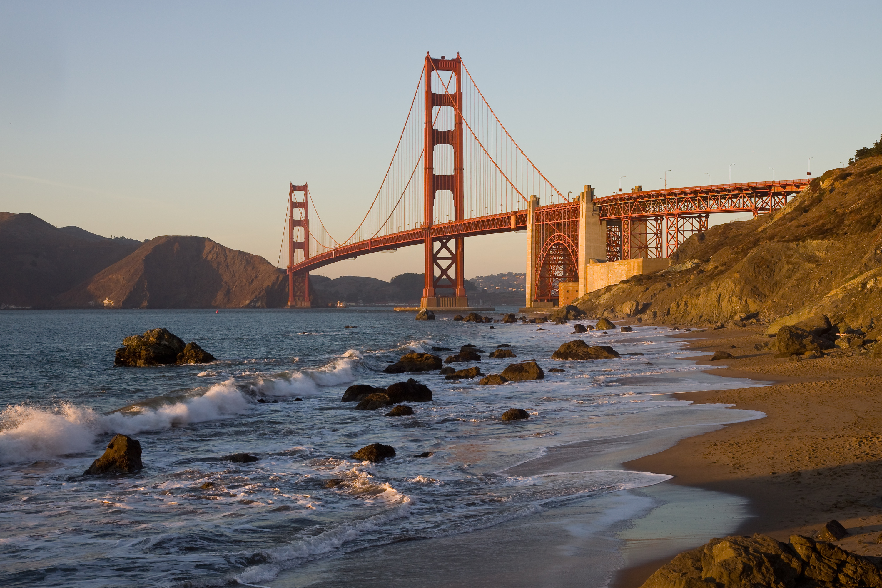 The Golden Gate Bridge in San Francisco as seen from the northern end of Baker Beach.